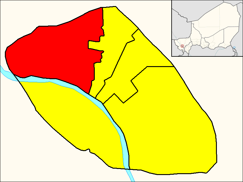 Map of the borough (commune) of Niamey I (shown in red) within the city of Niamey (yellow). Niger River is shown in the map.